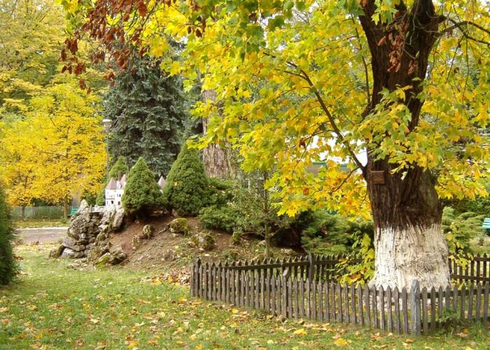 Parzymiechy - park